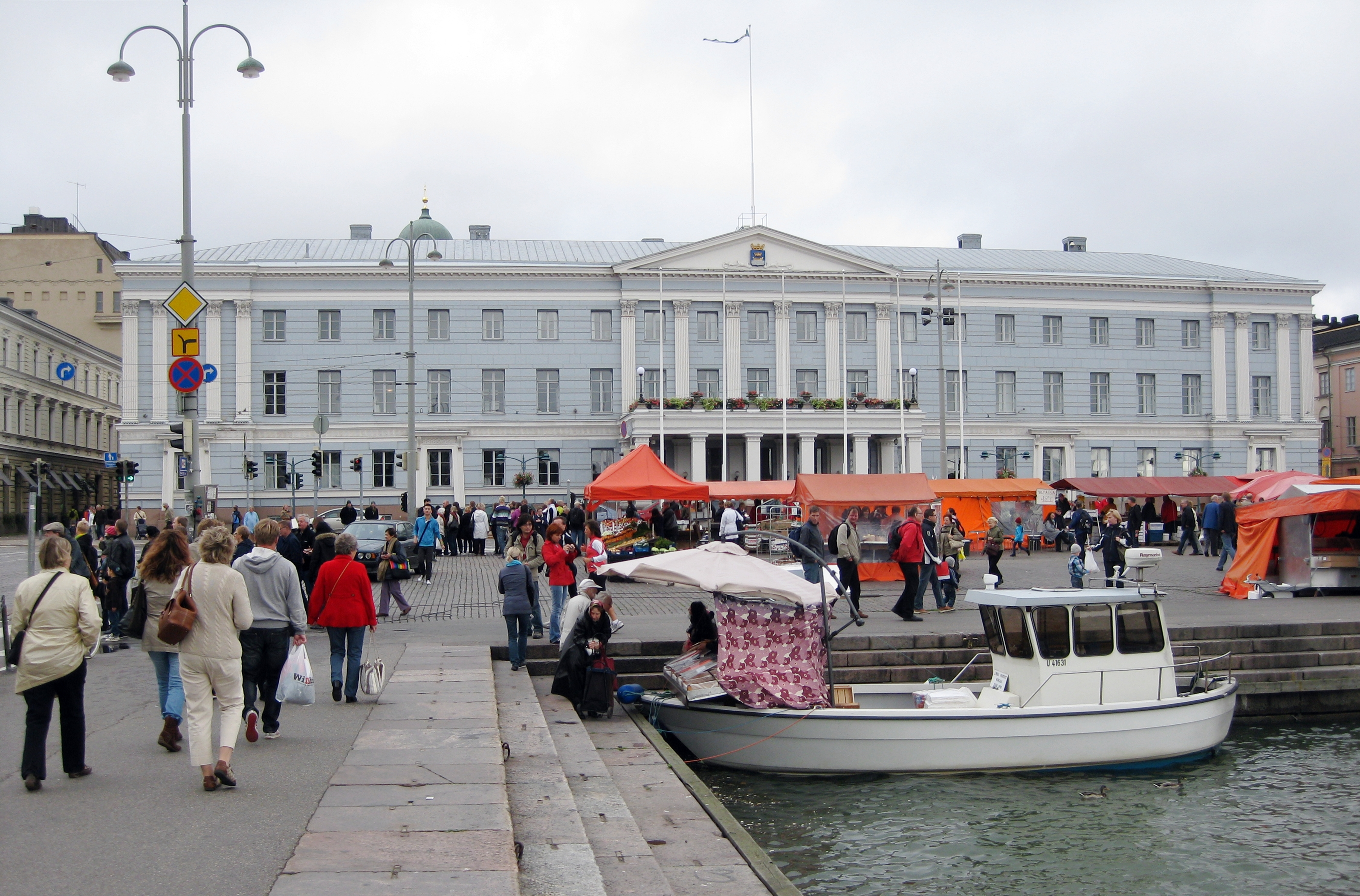 Helsinki/Finland: Marketplace at South Harbour; view to Town Hall